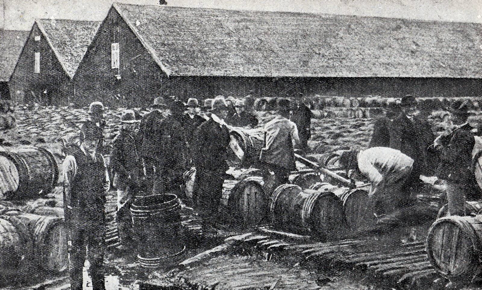 Tervahovi (i.e tar barrel wholesale stocks) in Oulu before it was destroyed in a fire 1901.